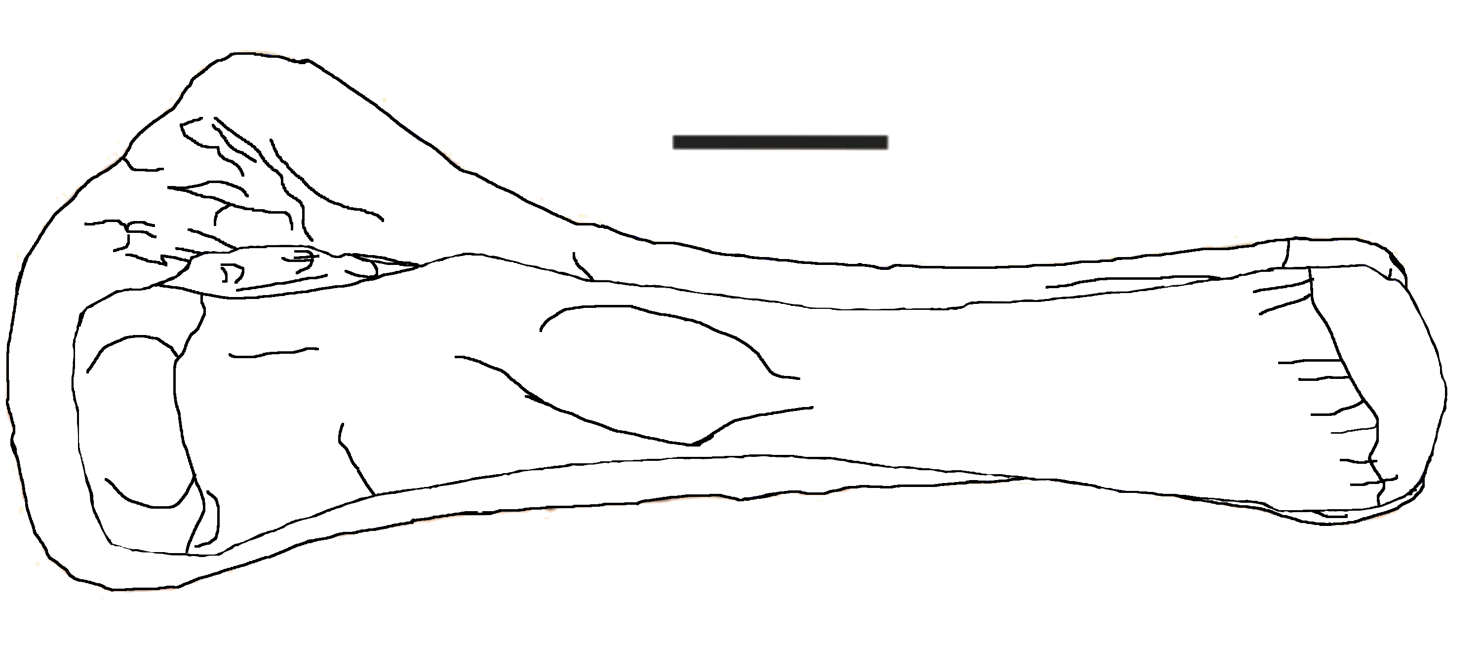 The tibia & fibula of Laplatasaurus.